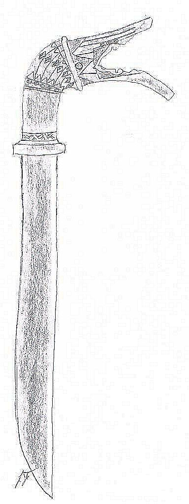 Sumara